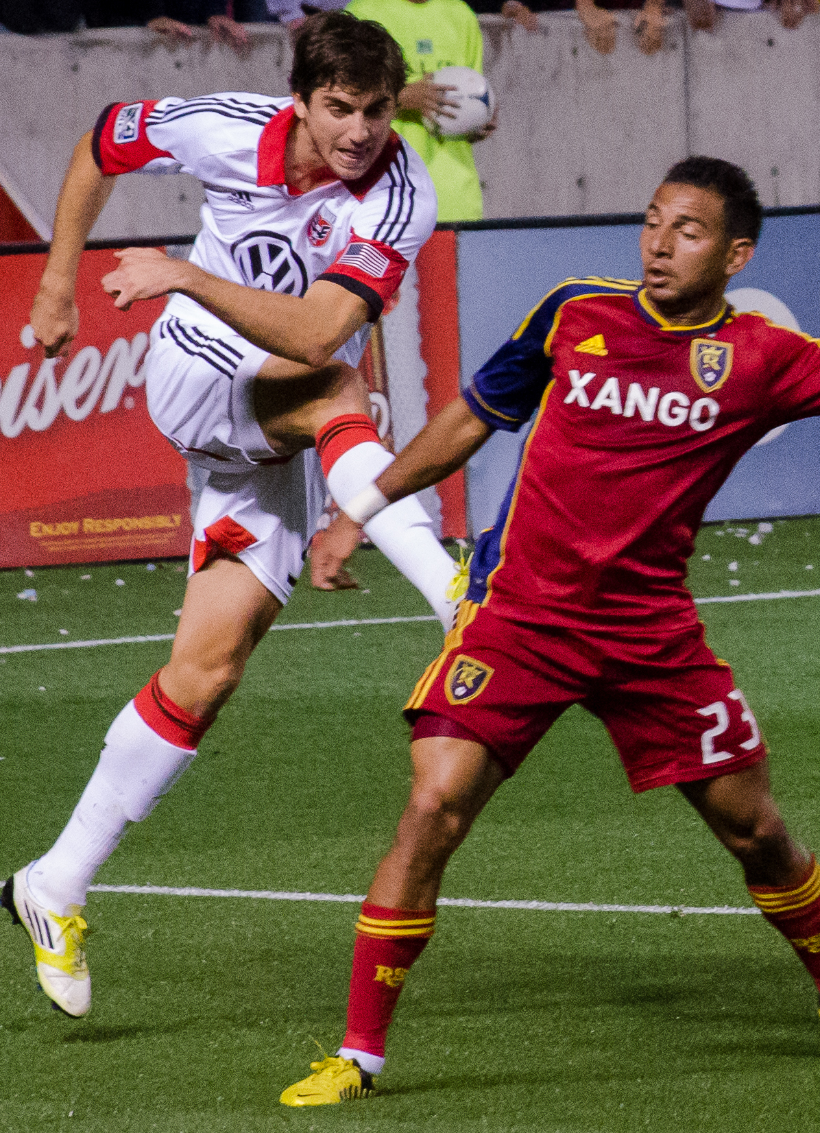 Dejan Jaković of DC United clears the ball while Javier Morales of Real Salt Lake attempts to block.